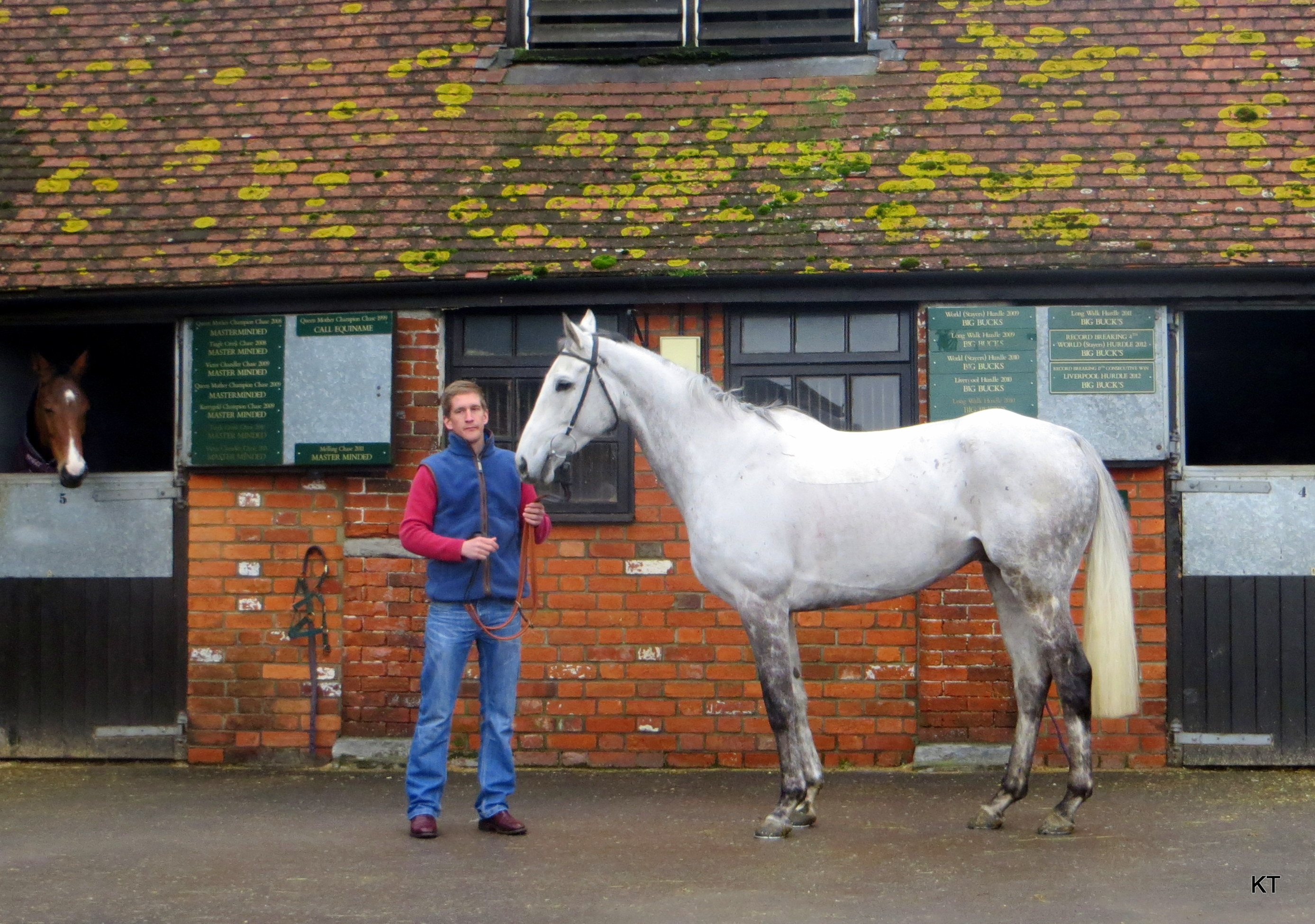 Ditcheat, February 2014.